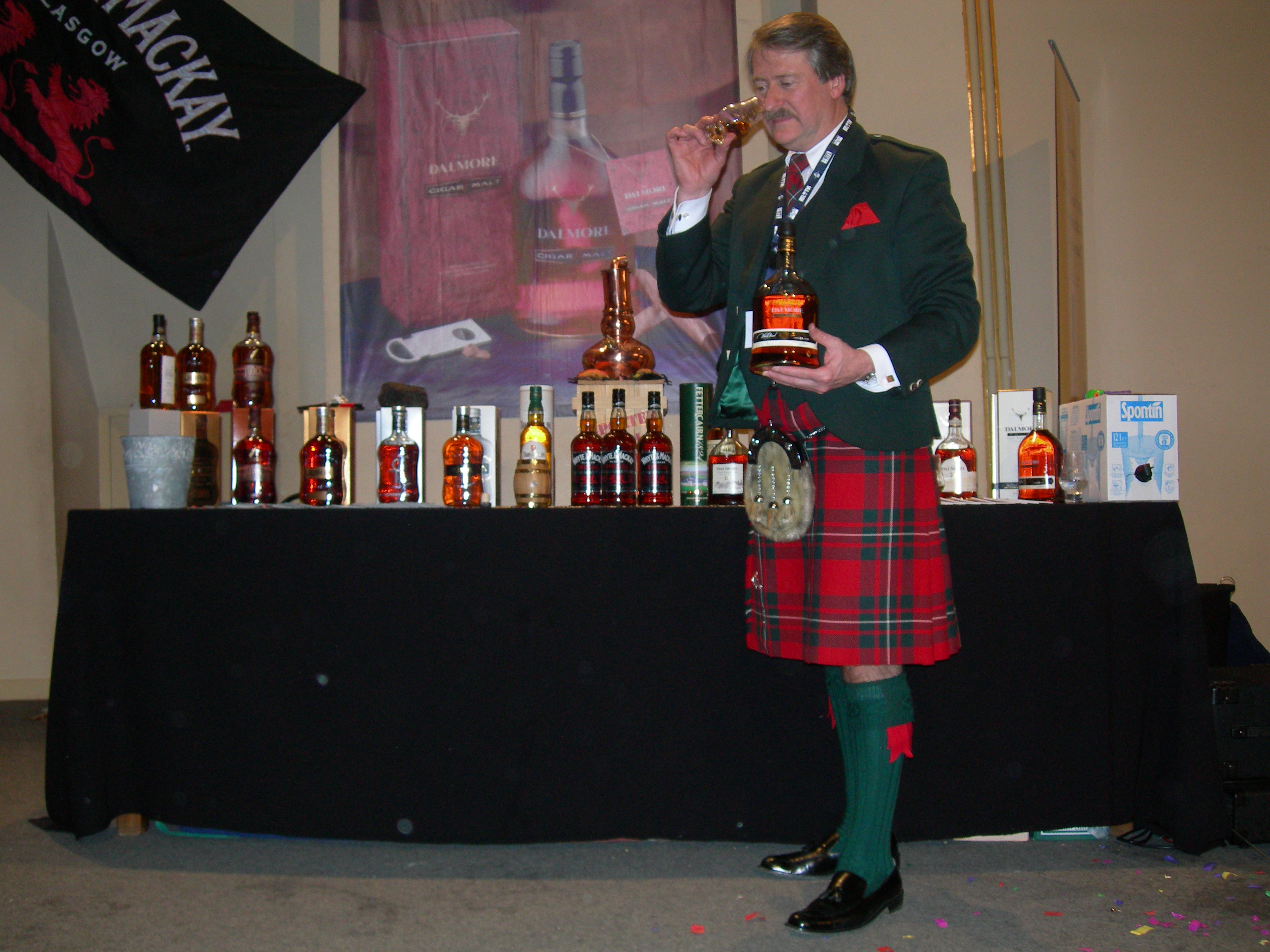 Master blender Richard Paterson of Whyte & Mackay in Verviers (B) in 2006